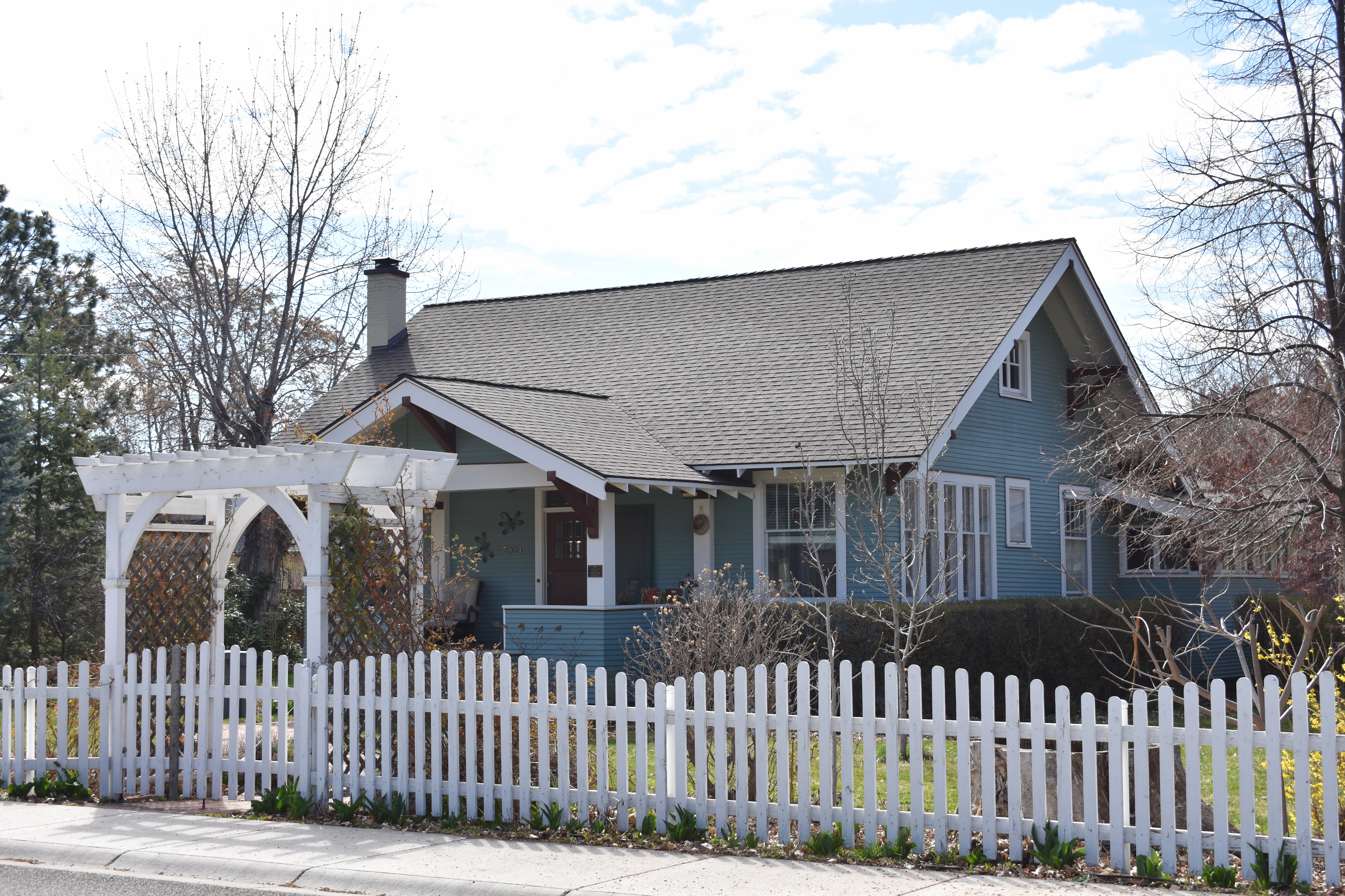 The William Whitehead House (1910) in Boise, Idaho, was designed by Tourtellotte & Hummel and is listed on the National Register of Historic Places.